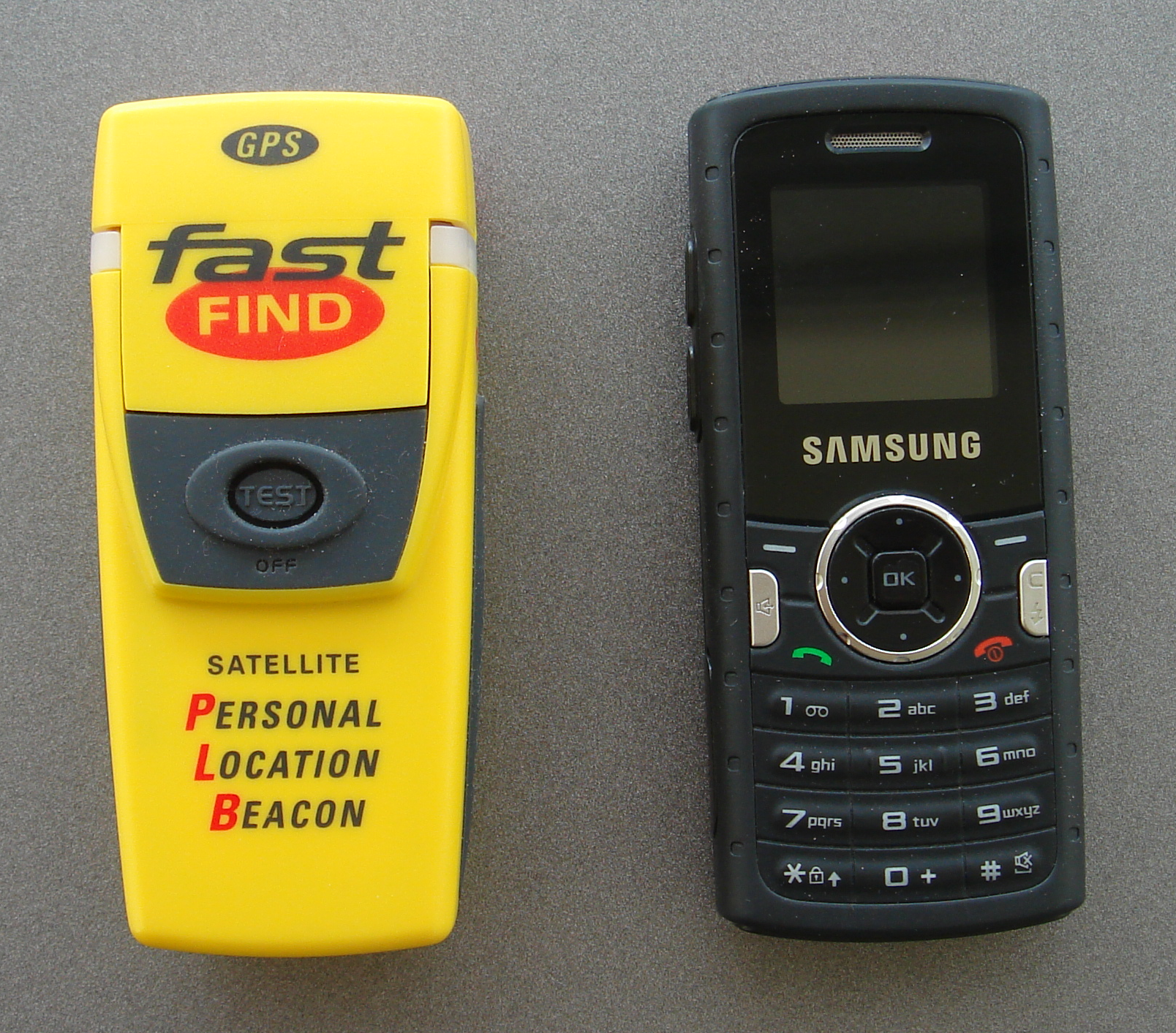 PLB (Personal Locator Beacon) compared for size to a cellphone.